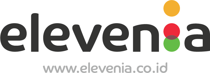 elevenia is an online commerce in Indonesia. elevenia is a product of PT XL Planet, a joint venture company between PT XL Axiata and SK Planet from Korea. elevenia has an open marketplace platform that requires buyer and seller to transact.